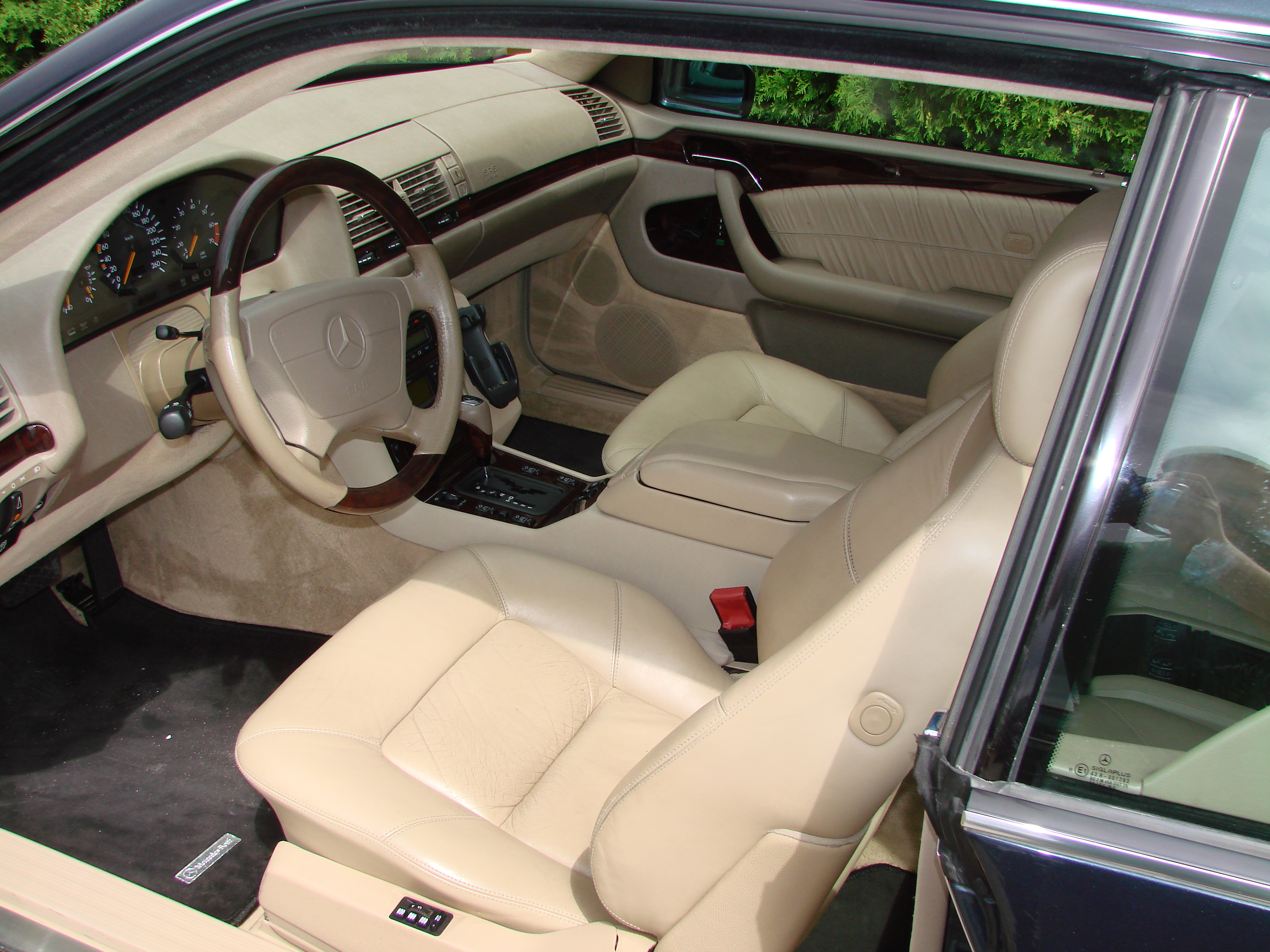 Mercedes-Benz CL 500, one of the 5000 of variant with bright interior. Photo taken in Wytrębowice